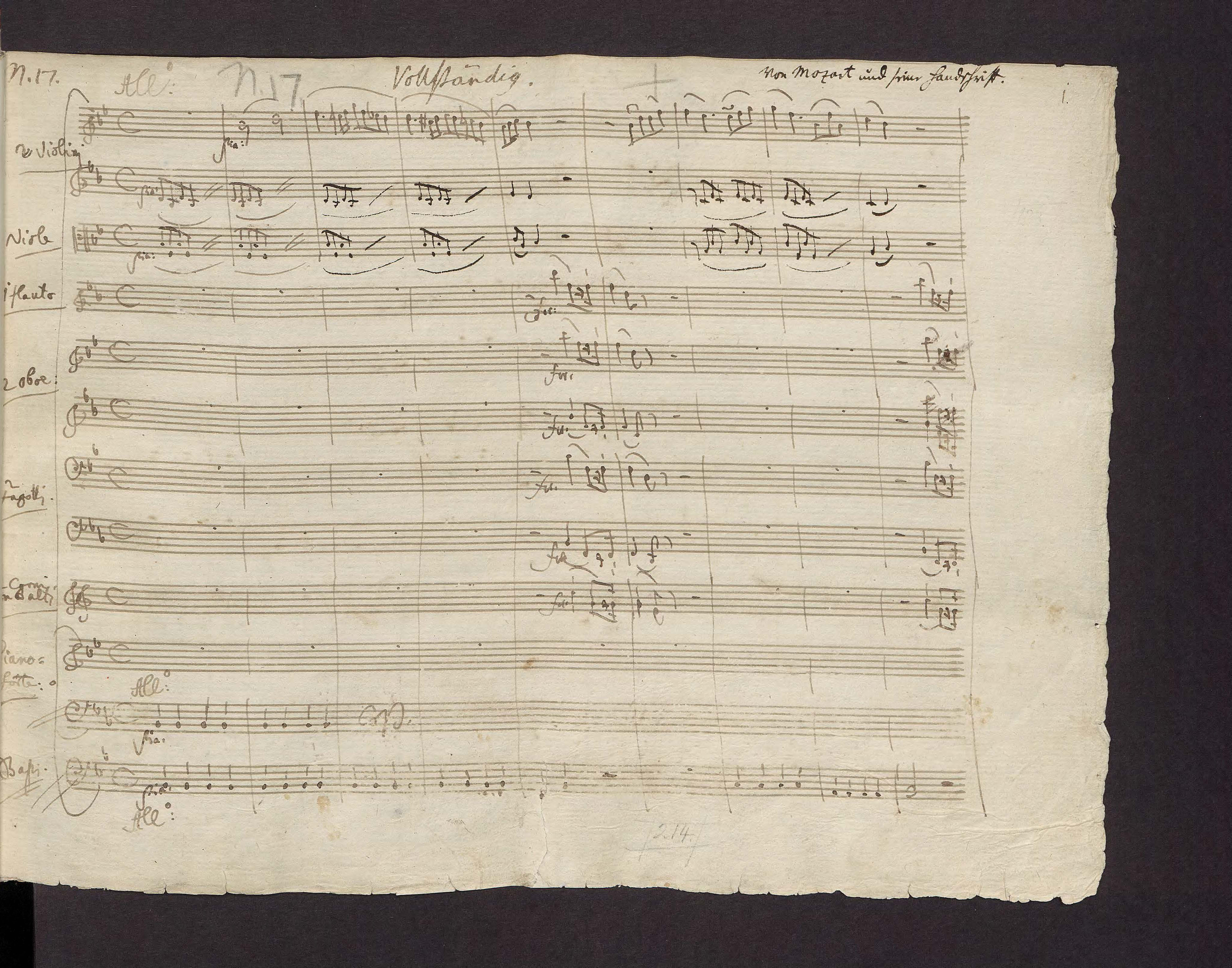 The autograph manuscript of Mozart's Piano Concerto No.27 in Bb Major, K.595, f.1r - Biblioteka Jagiellońska, Krakow.